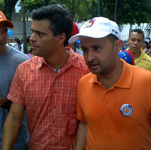 Leopoldo Lopez